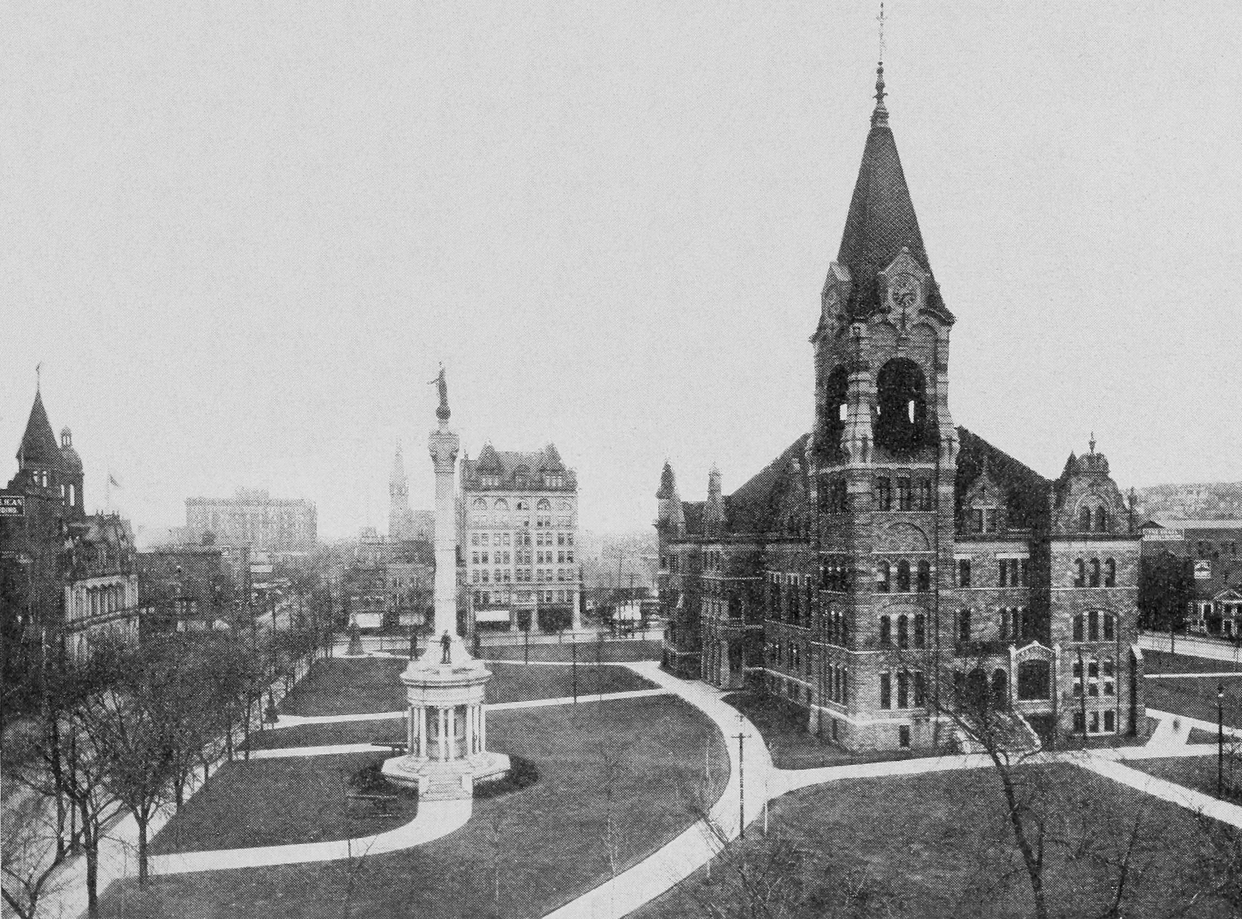 City Hall and Soldiers Monument, ca. 1919. Caption: Probably no other city of its class is richer in the world than Scranton. Five billion tons of Anthracite in the hard coal region have been used or wasted, but fifteen billion tons have not yet been touched within a radius of two or three hours' ride of Scranton. Its property is founded upon the civic pride of its people no less than upon its mines.